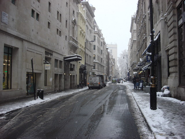 Jermyn Street